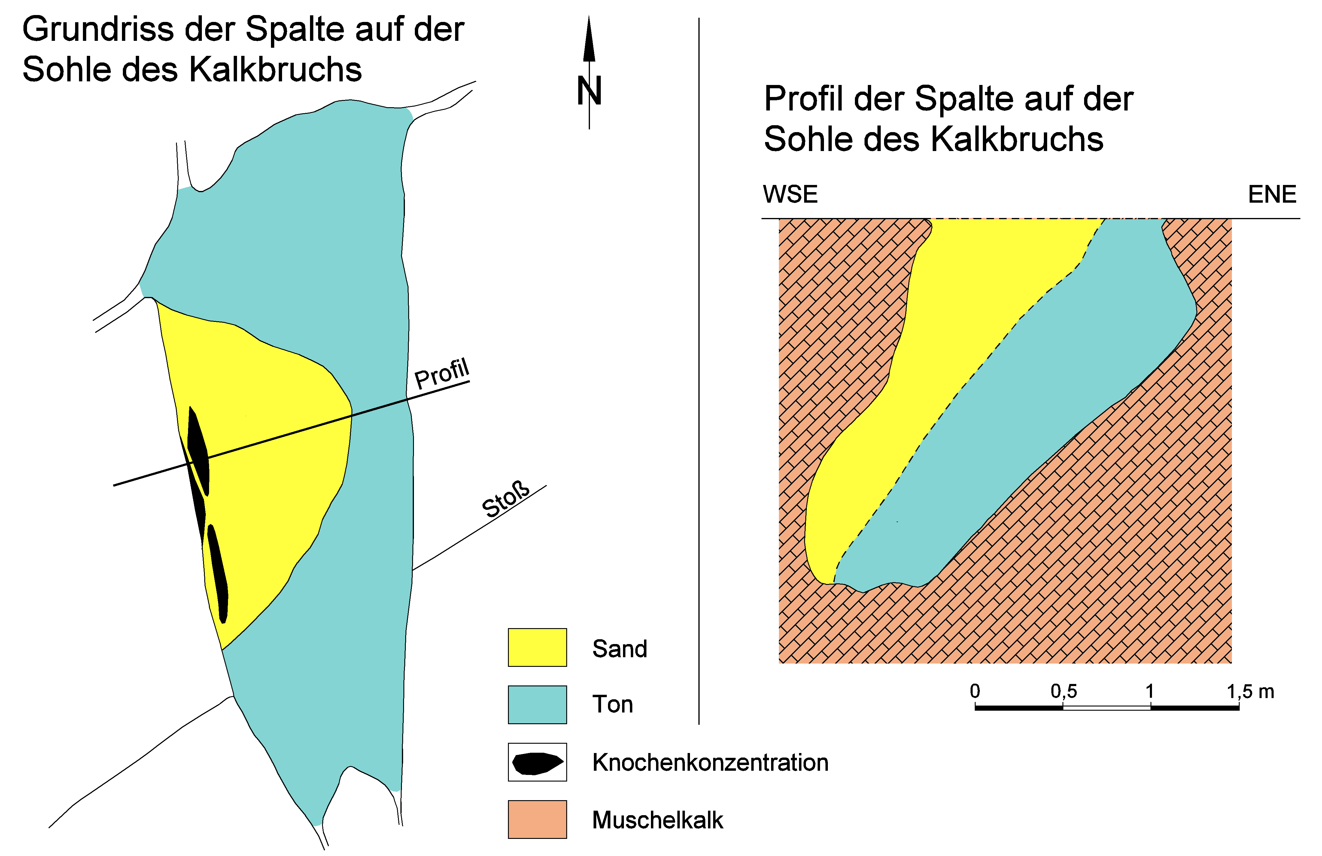 Shape and section of the lime stone fissure near Walbeck (Saxony-Anhalt), redrawn after Johannes Weigelt: Die Aufdeckung der bisher ältesten tertiären Säugetierfauna Deutschlands. Nova Acta Leopoldina NF 7, 1939, pp. 515–528 (pp. 520 und 521)